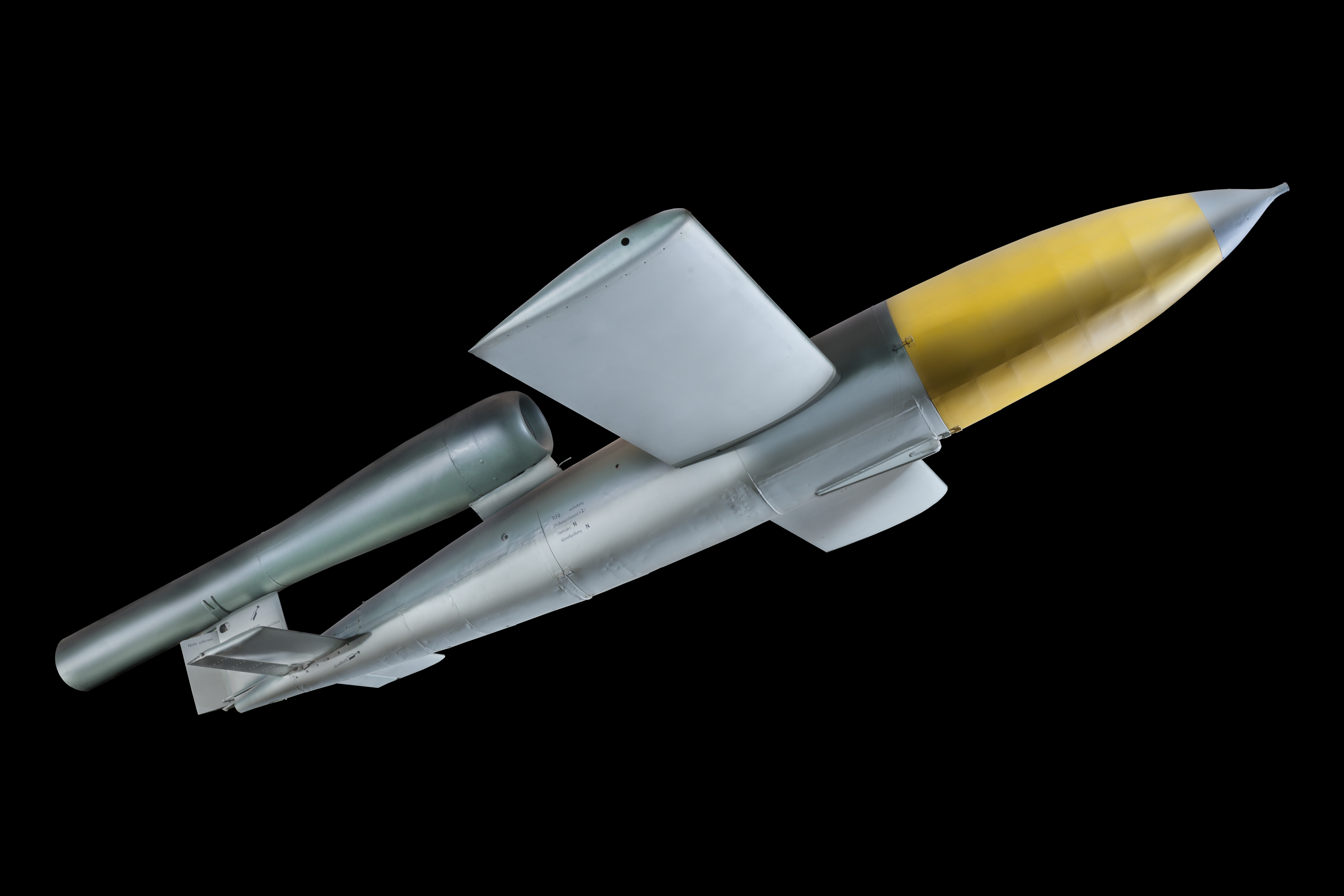 V-1 (Fi 103, FZG 76) Cruise Missile (A19600341000) at the Smithsonian Institution National Air and Space Museum. May 20, 2014. Smithsonian photo by Eric Long (A19600341000_2) (NASM2018-10736)